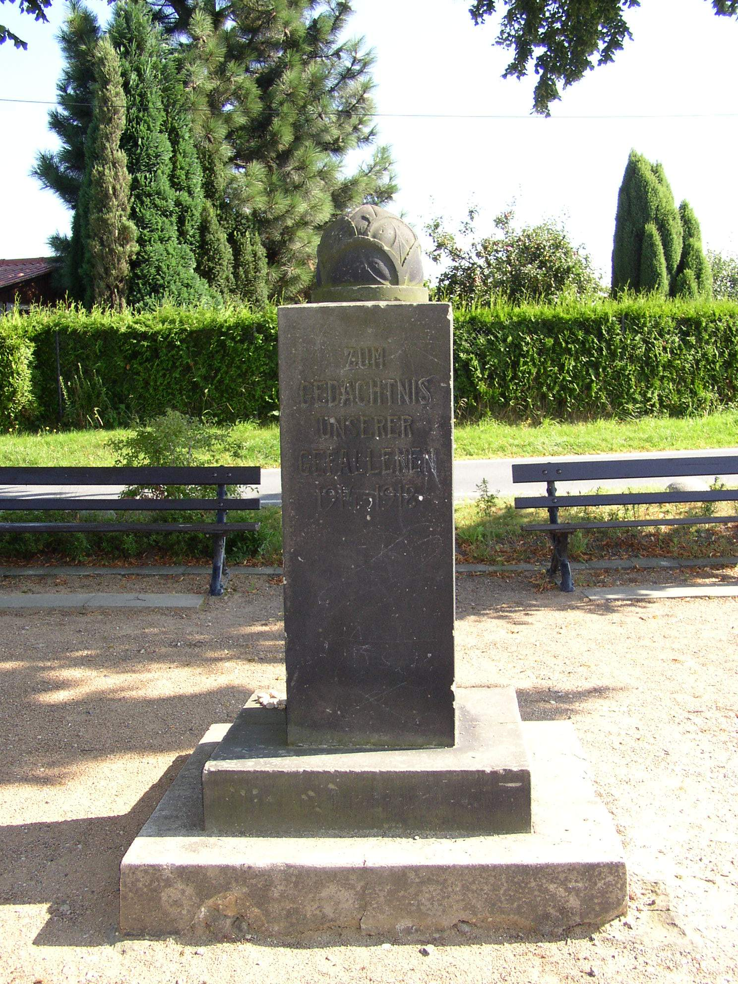 Denkmal in Rockau an die Gefallenen des ersten Weltkrieges von Edmund Schuchardt